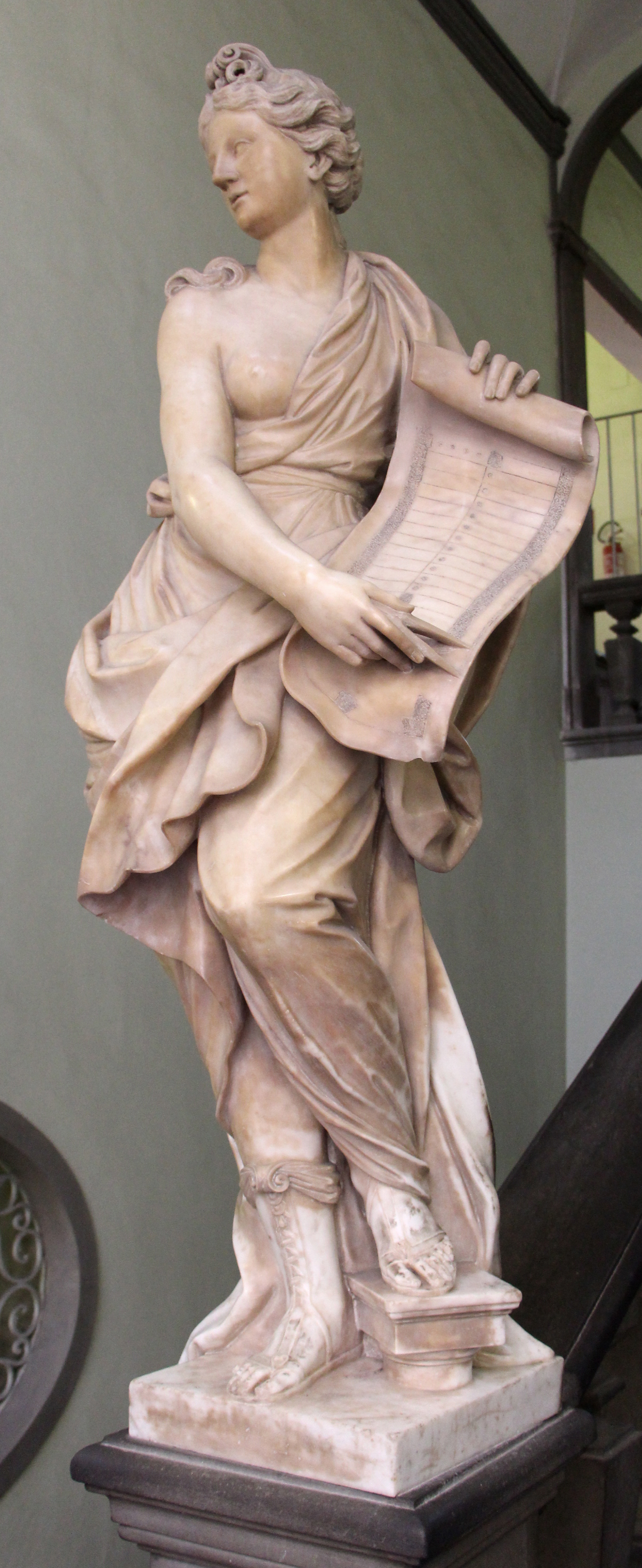 Palazzo Rinuccini